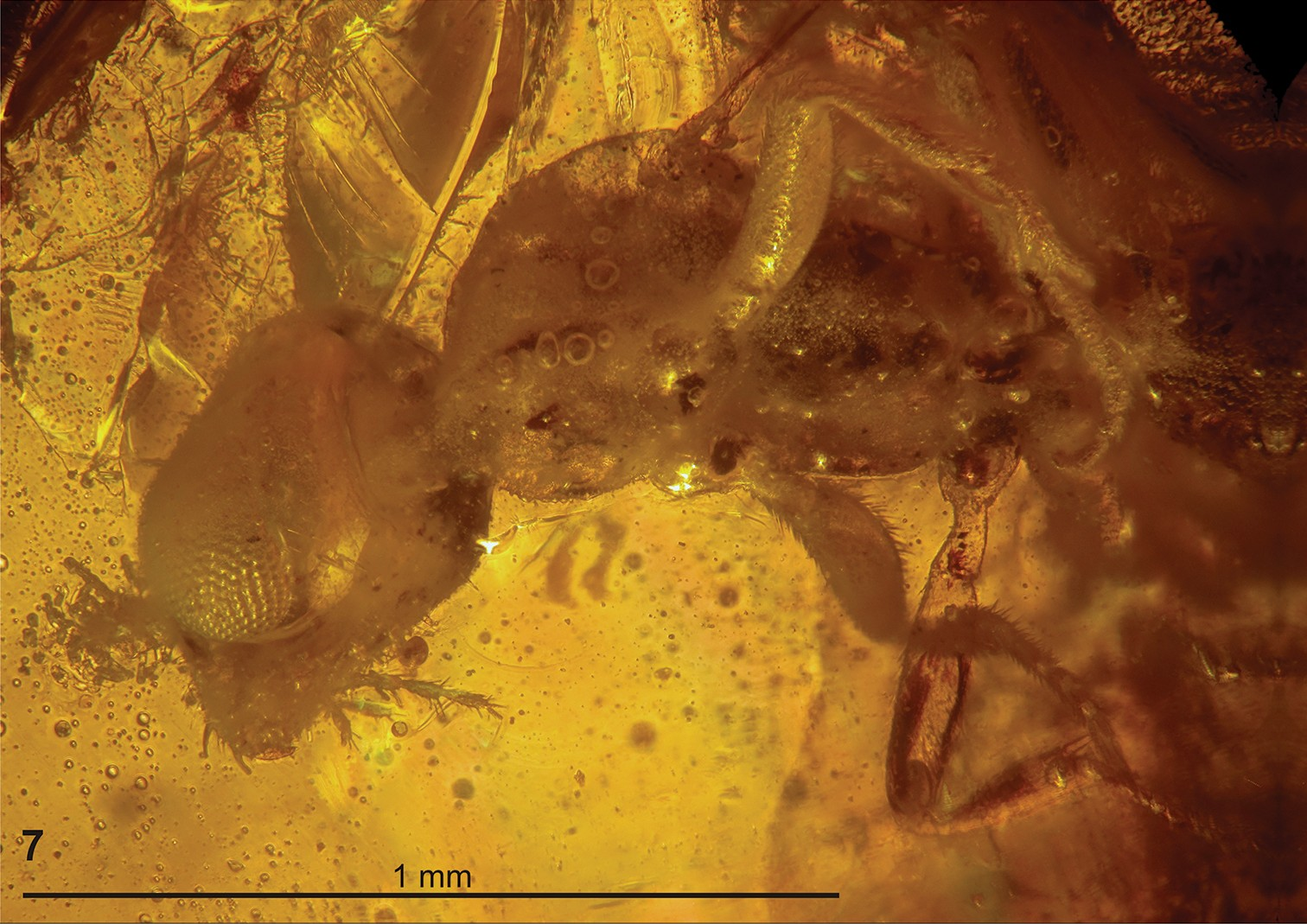 New Jersey amber containing specimens of Plumalexius rasnitsyni sp. nov. 7 Detail, ventrolateral view.